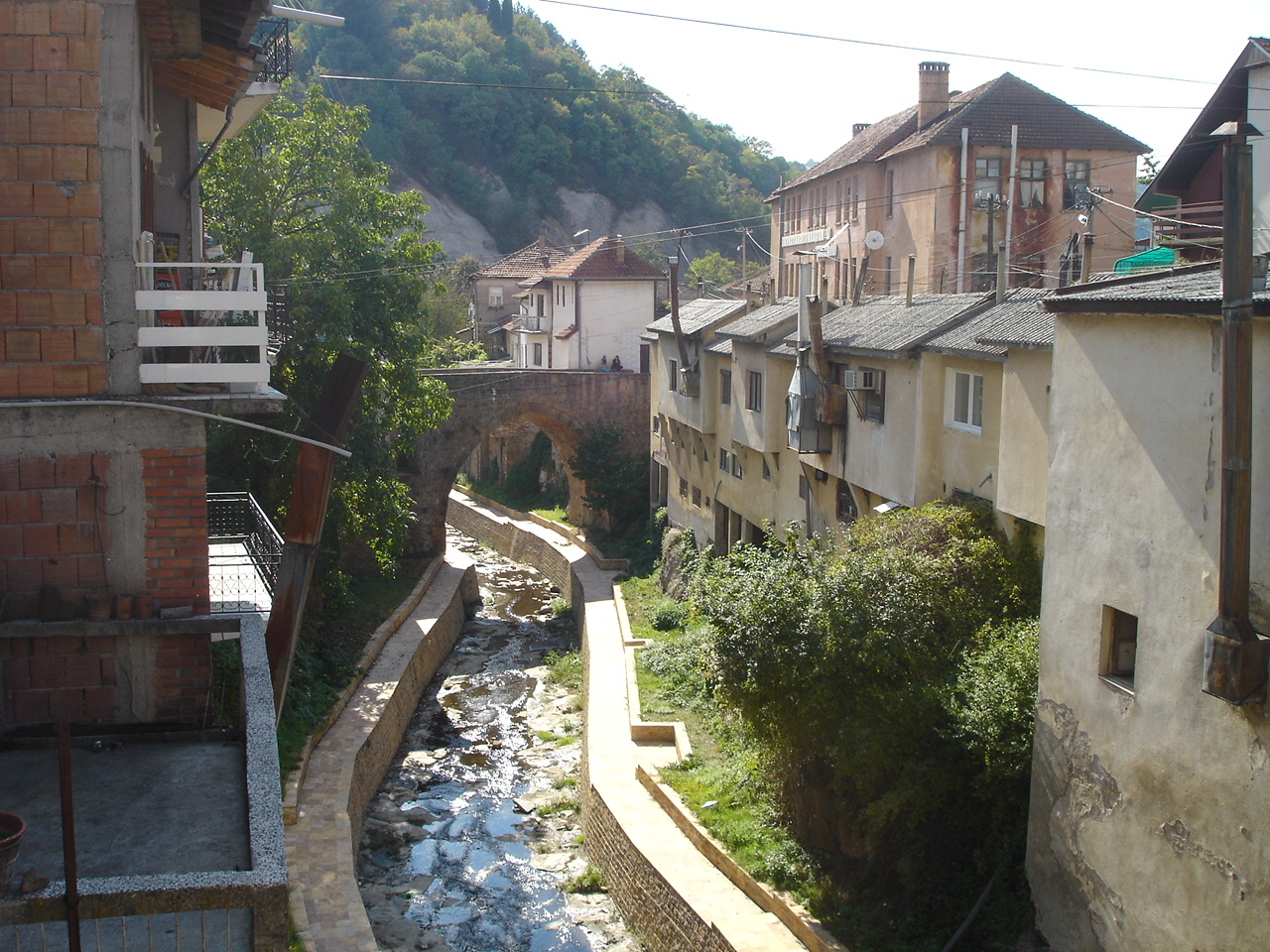 River in Kratovo, Macedonia